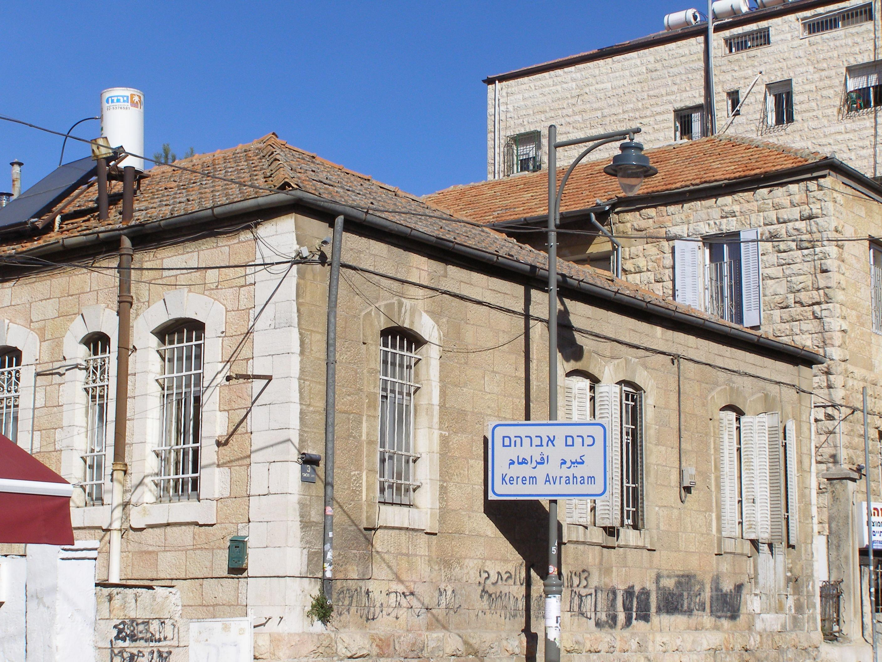 Keren Avraham, one of neighbourhoods of Jerusalem, Israel